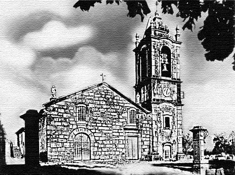 Igreja do Divino Salvador de Joane